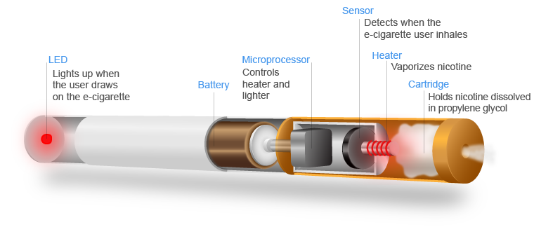 Deconstructed electronic cigarette